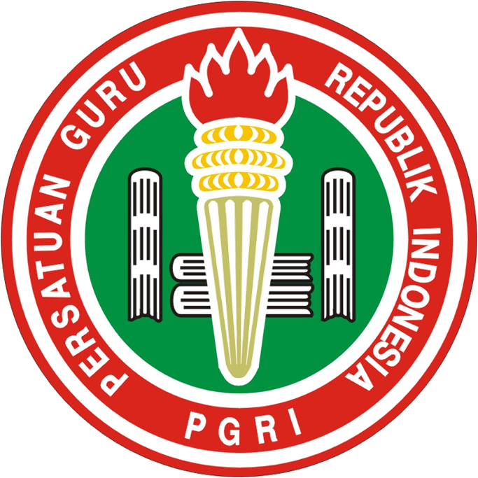 The official logo of Teachers Association of the Republic of Indonesia